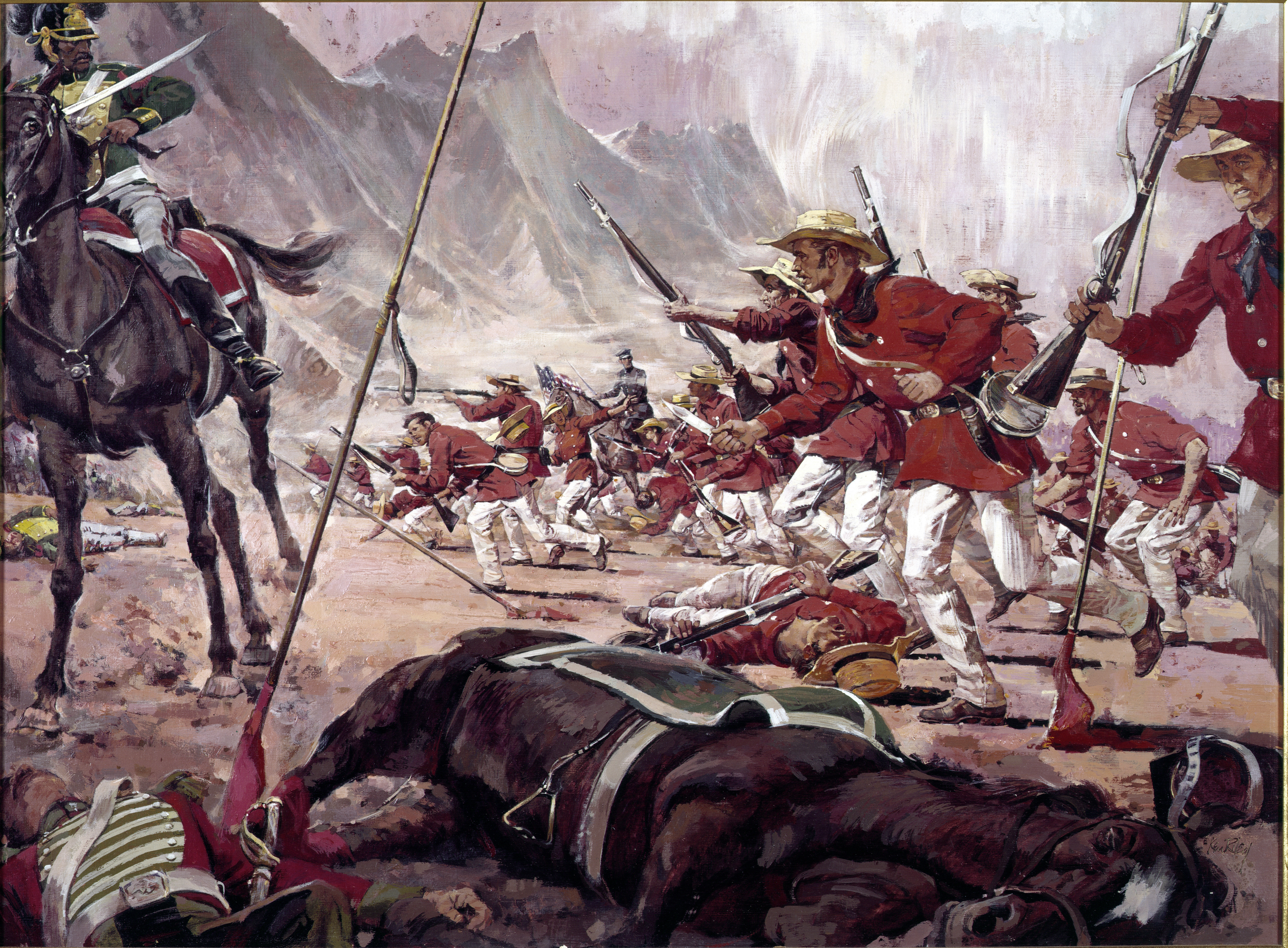 The Mississippi Rifles by Ken Riley for the state of Mississippi, 1847. Note: Buena Vista, Mexico, February 23, 1847. Fighting in the open on a dusty mountainside in a foreign land a thousand miles from home, facing an enemy many times its own strength, the Mississippi Rifles, commanded by Colonel Jefferson Davis, displayed a rock-like defense against a Mexican attack in response to the command, "Stand Fast, Mississippians!" Earlier, the battle had reached a critical stage when the Rifles (in the action depicted) were ordered to attack Mexican cavalry and infantry advancing on the Americans. The "hard-fighting Mississippi gentlemen" moved up, fired, then drew Bowie knives and closed in. The Rifles -- the 155th Infantry of the modern Mississippi Army National Guard - thus wrote another chapter in the proud National Guard tradition.